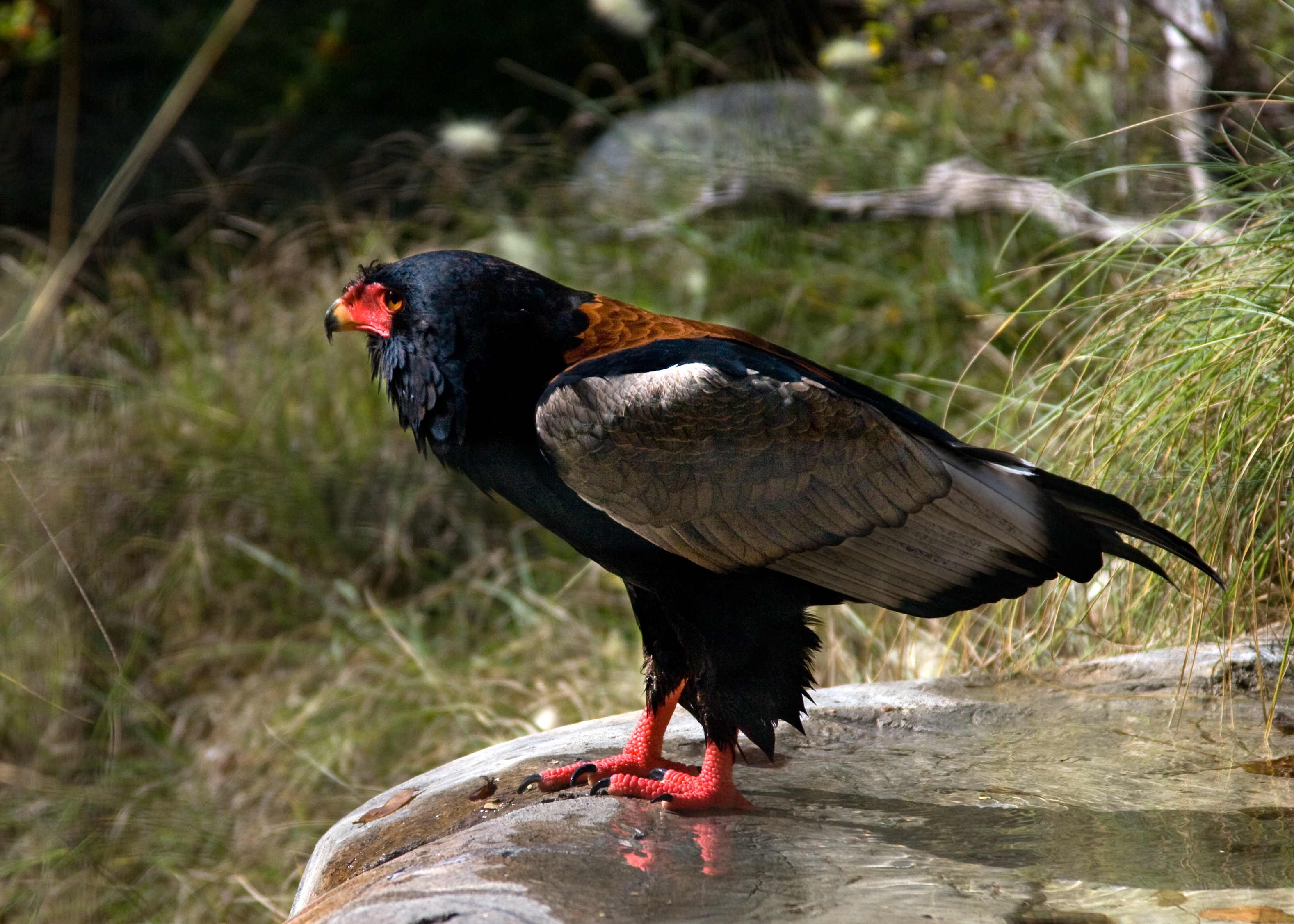 Bateleur at San Diego Zoo, USA.